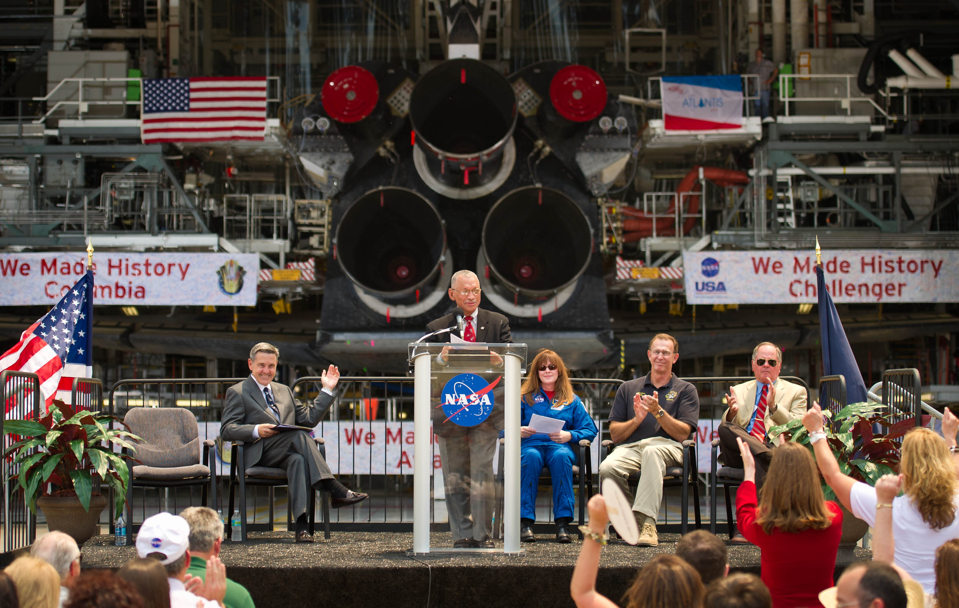 NASA Administrator Charles Bolden announces where four space shuttle orbiters will be permanently displayed at the conclusion of the Space Shuttle Program during an event held at one of the Orbiter Processing Facilities, Tuesday, April 12, 2011, at Kennedy Space Center in Cape Canaveral, Fla. The four orbiters, Enterprise, which currently is on display at the Smithsonian's Steven F. Udvar-Hazy Center near Washington Dulles International Airport, will move to the Intrepid Sea, Air & Space Museum in New York, Discovery will move to Udvar-Hazy, Endeavour will be displayed at the California Science Center in Los Angeles and Atlantis, in background, will be displayed at the Kennedy Space Center Visitor’s Complex. Photo Credit: (NASA/Bill Ingalls)